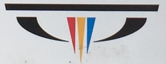 Generic logo of the Commonwealth Games